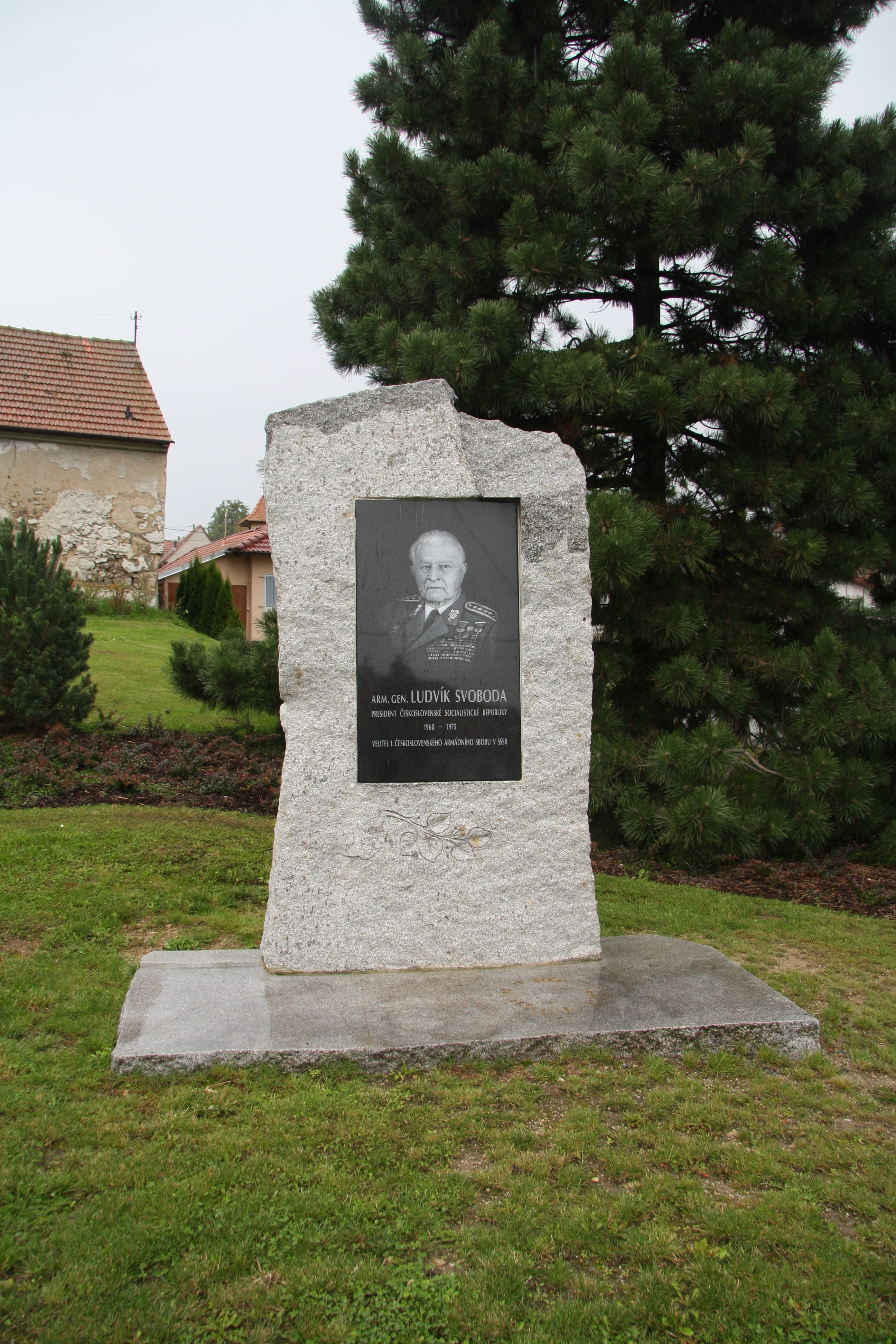 Overview of Ludvík Svoboda monument in Hroznatín, Třebíč District.